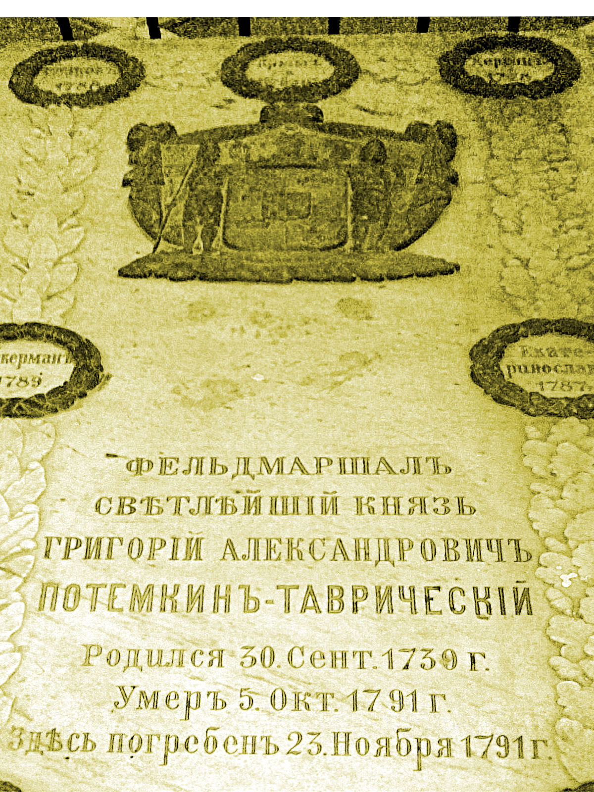 Potemkin, Grigori Alexandrovich